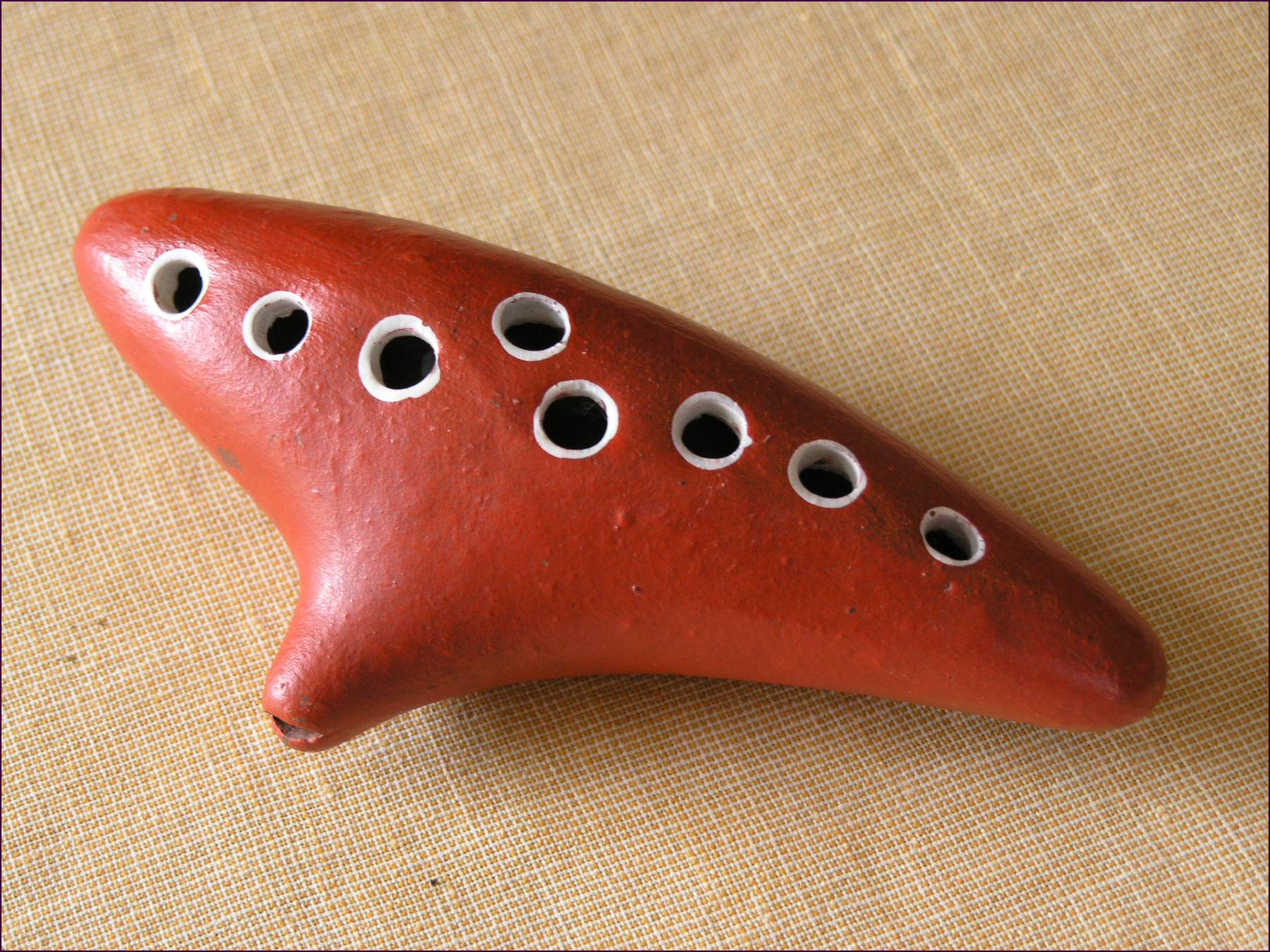 Ocarina